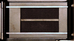 Shutter